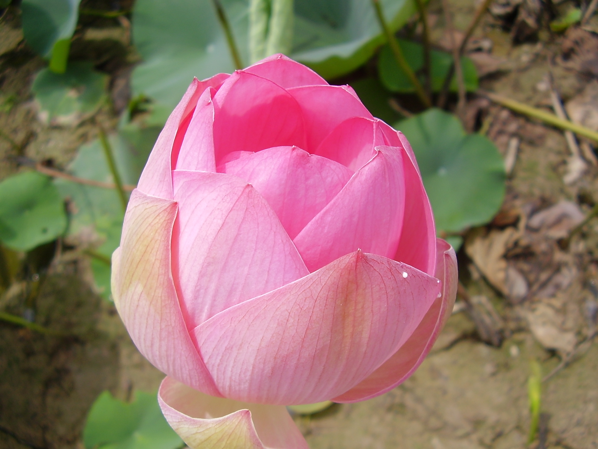 Kanwal/Lotus from Sohawa, District Jhelum Punjab, Pakistan.